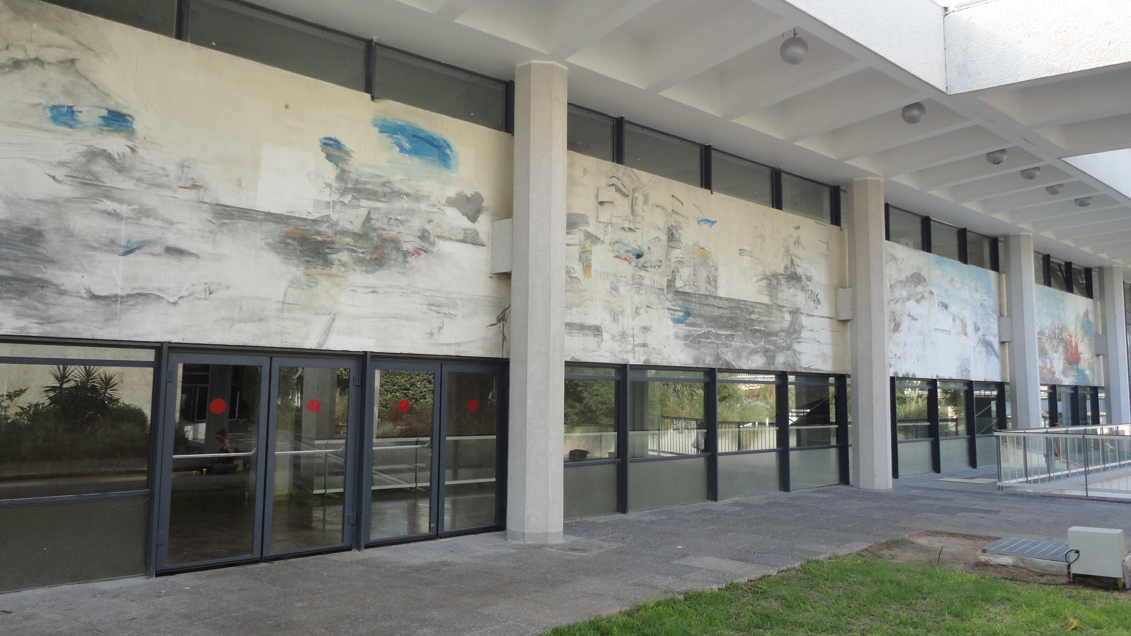 Schwebel, Ivan Israeli, born USA, 1932–2011 Mural (detail) Late 1970s Heichal Hatarbut, Tel Aviv-Yaffo